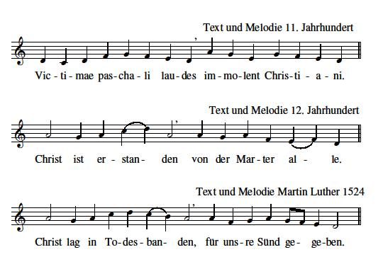 Beginnings of three medieval Easter tunes in comparison